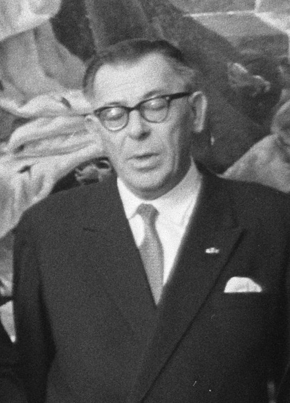 Luxembourg Foreign Minister Eugene Schaus, The Hague 1960